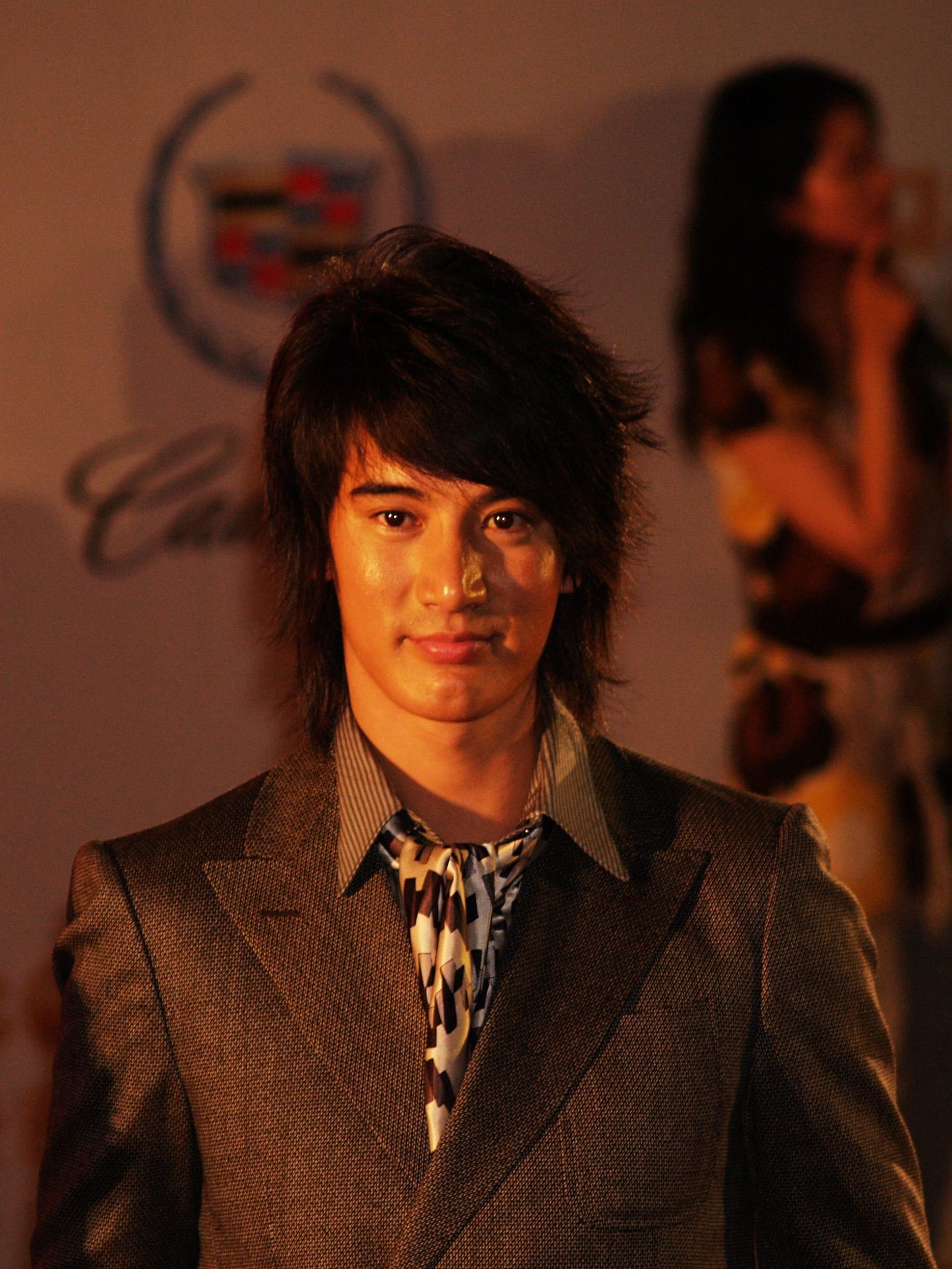 Purba Rgyal 中文（中国大陆）: 蒲巴甲